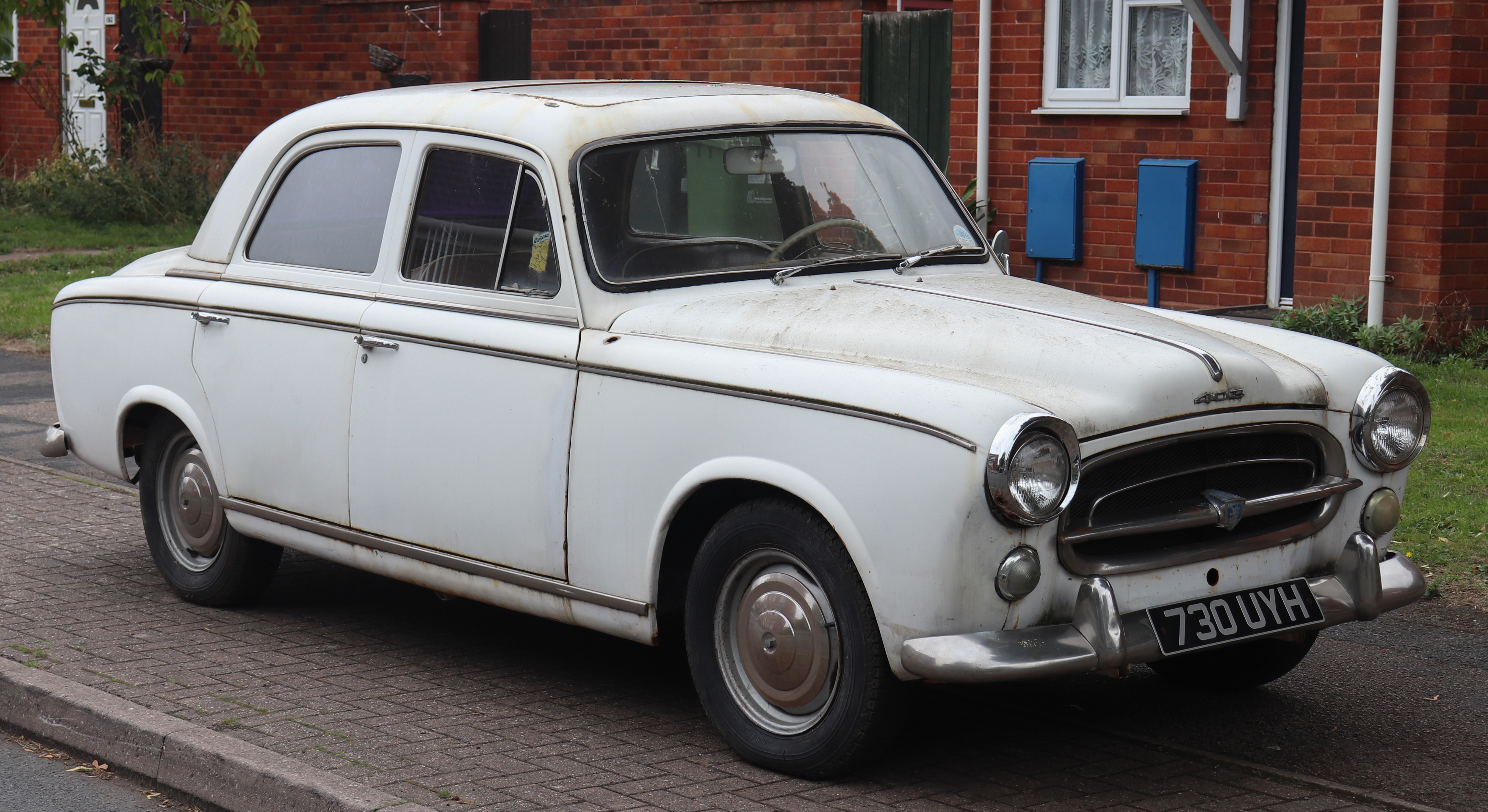 1959 Peugeot 403 1.5 Front Taken in Warwick